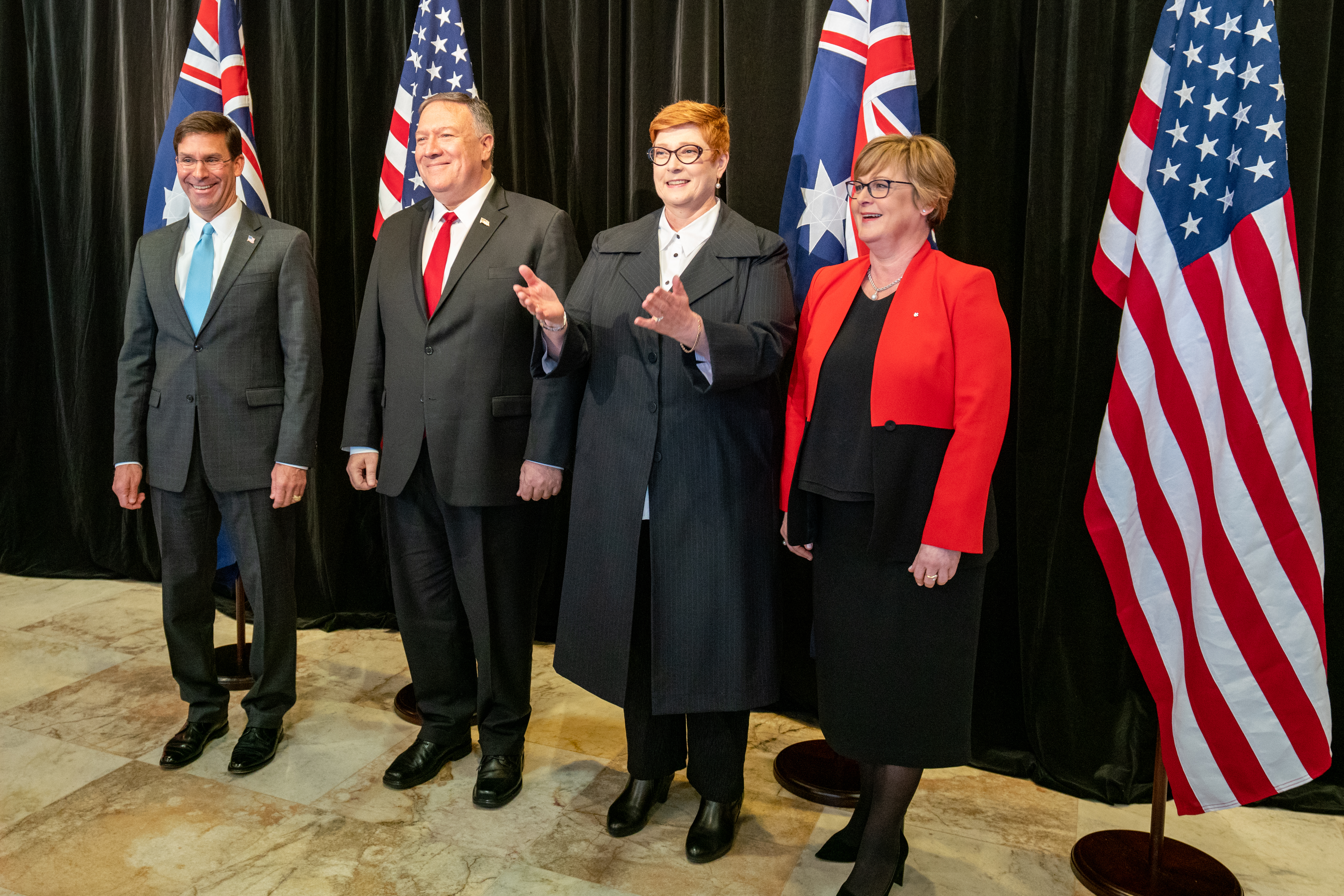 Secretary Michael R. Pompeo makes introductory remarks at AUSMIN at the Parliament of New South Wales House Jubilee Room with Foreign Minister Payne, Defense Minster Reynolds, and U.S. Secretary of Defense Esper in Sydney Australia on August 3, 2019. [State Department photo by Ron Przysucha/ Public Domain]